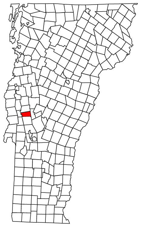 Description: Map of Vermont towns with Leicester highlighted Source: Map created by Jared C. Benedict on 26 March 2004. Copyright: © Jared C. Benedict.